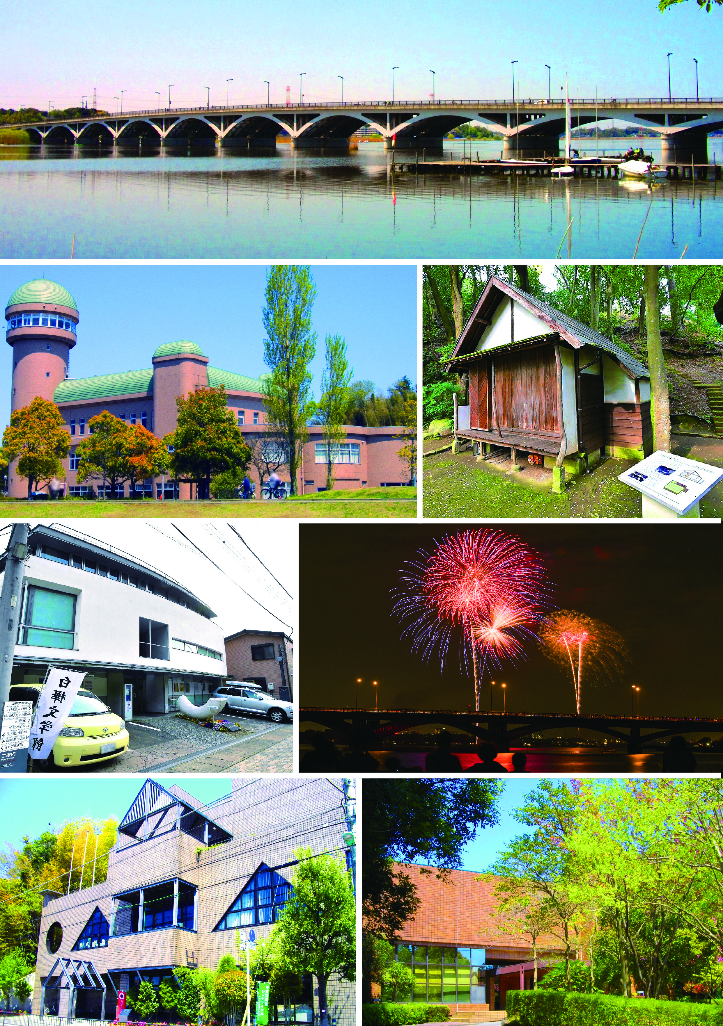 Abiko montage.jpg